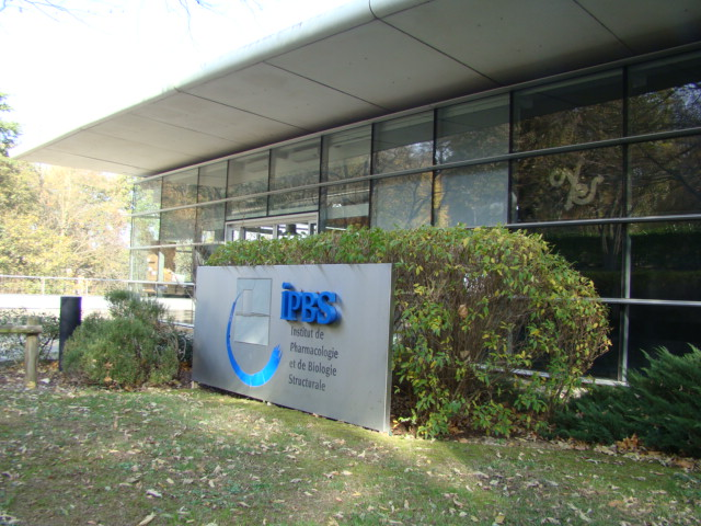 Administration building at IPBS : institut de pharmacologie et de biologie structurale